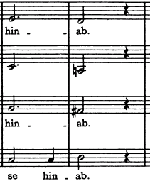 J. Brahms, Schicksalslied, Opus 54. Choral Excerpt 6.